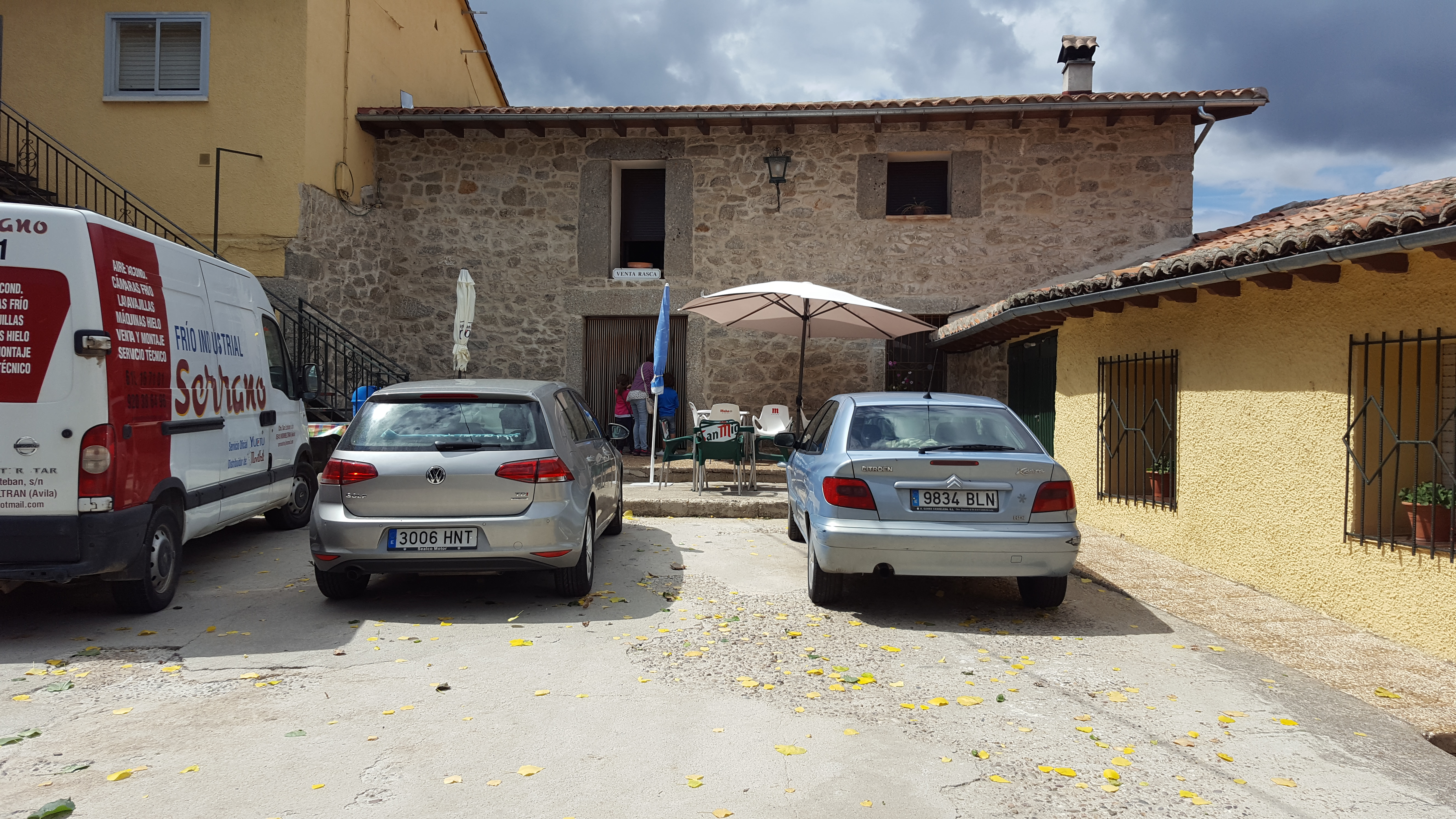 Venta Rasca Restaurant in San Martín del Pimpollar, Ávila Spain